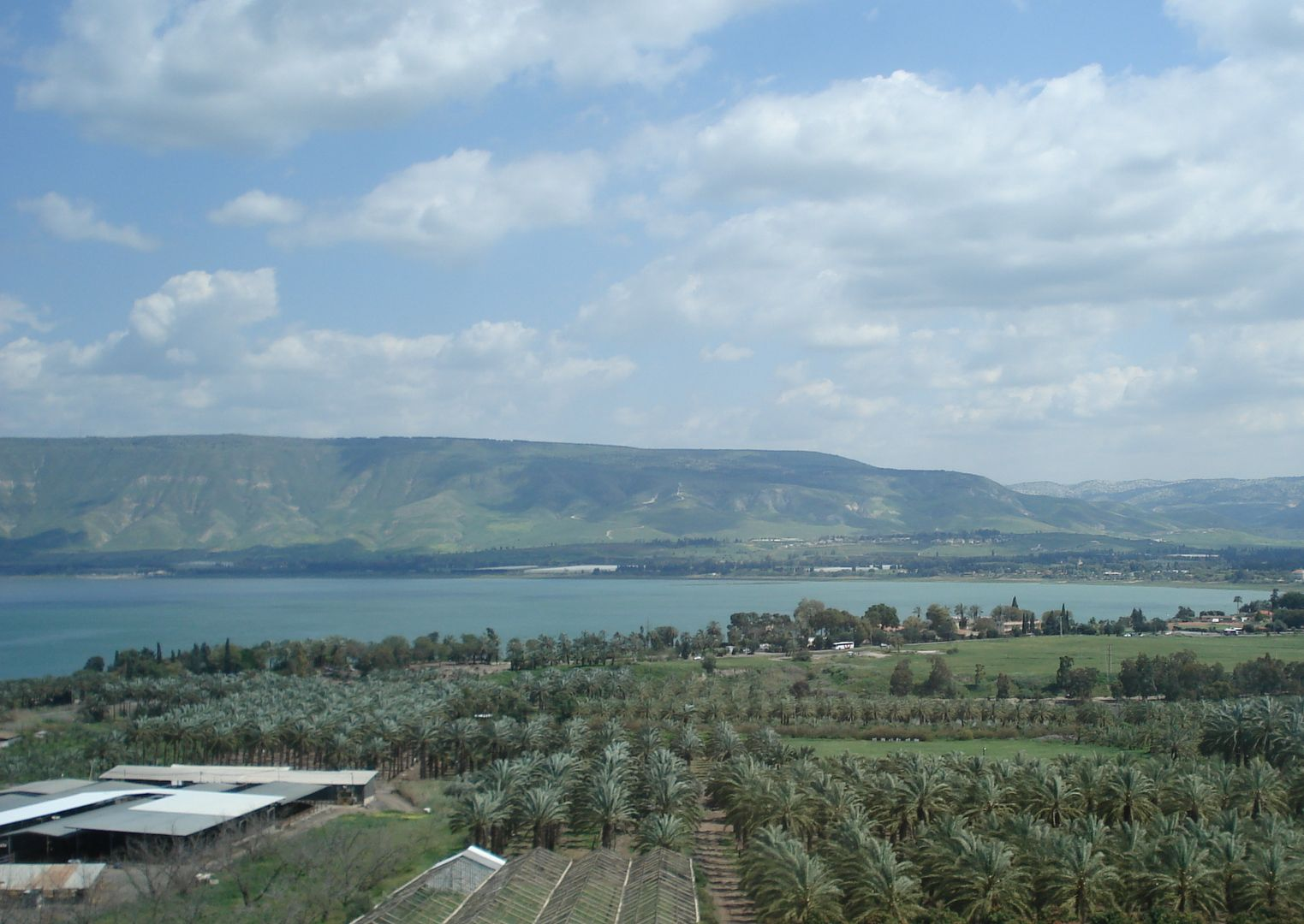 Observation to the Kinneret from the south